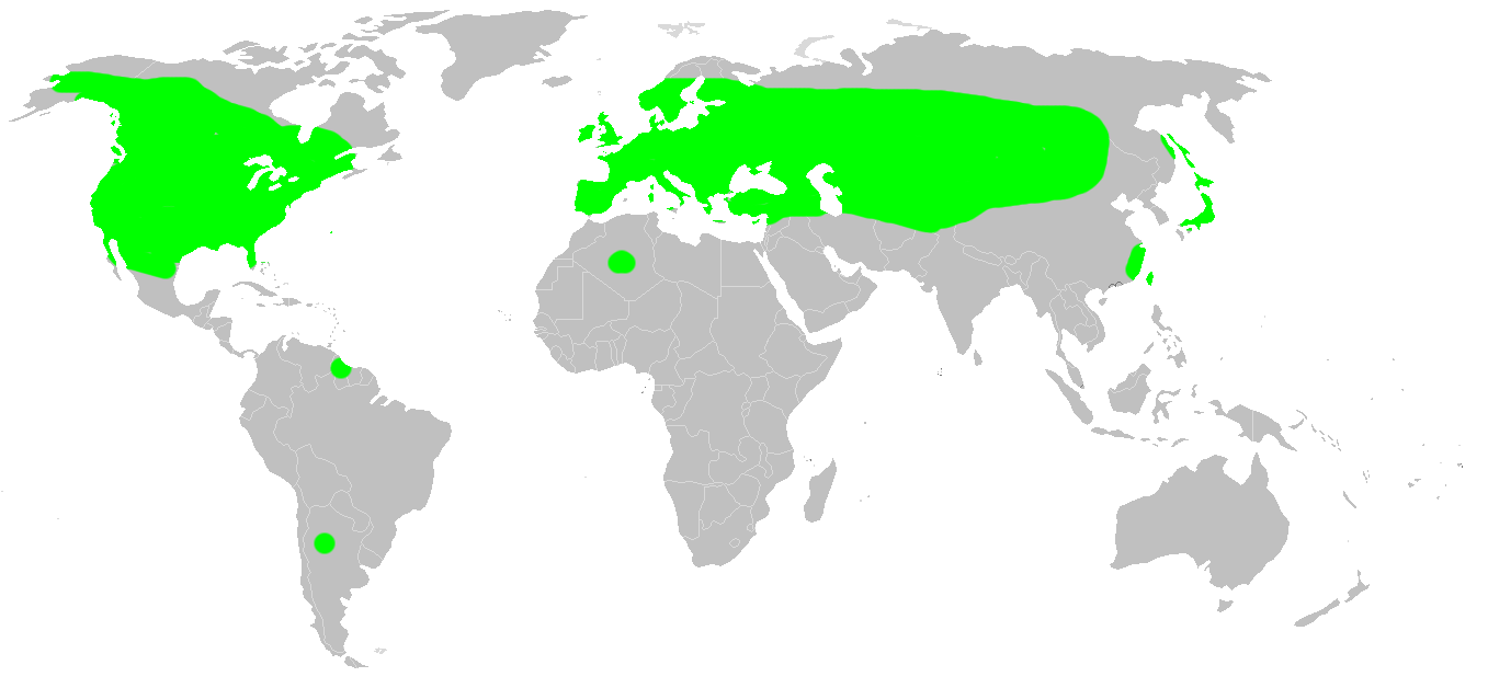 Known world distribution of Cyclosa conica, after data from British Arachnological Society, 2006.